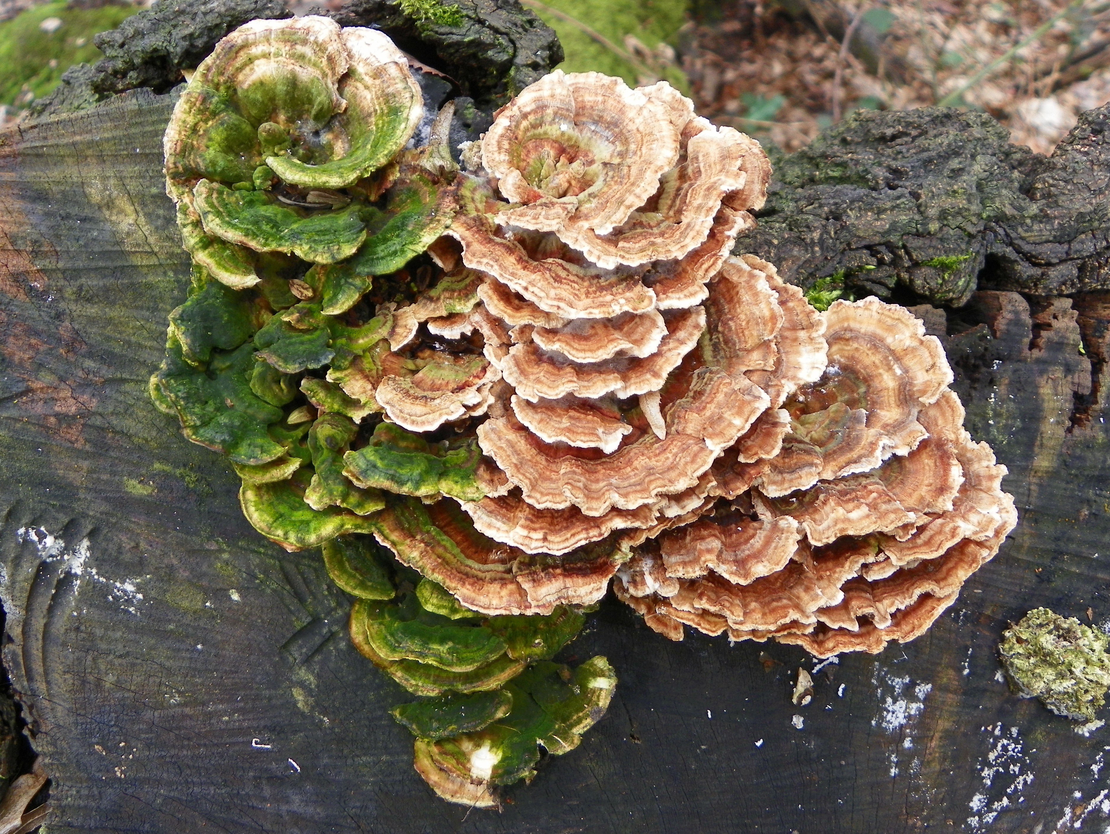 Turkeytail (Trametes versicolor) aka Many-zoned Polypore, growing on a tree stump in Pryor's Wood, bear Stevenage, 9 March 2011